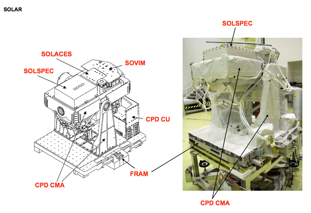 SOLAR ESA